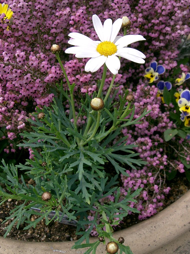 Argyranthemum frutescens